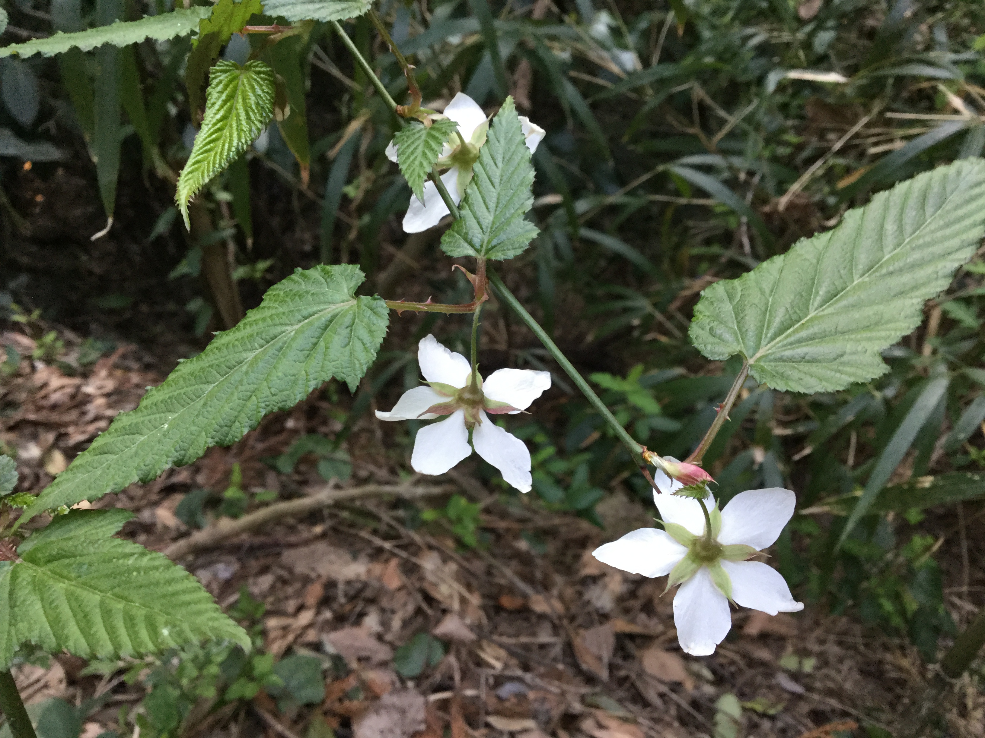 ナガバモミジイチゴの下向きに咲く花